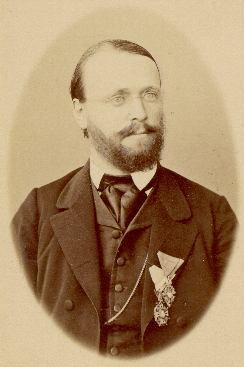 Etbin Henrik Costa (1832-1875), Slovenian conservative politician.